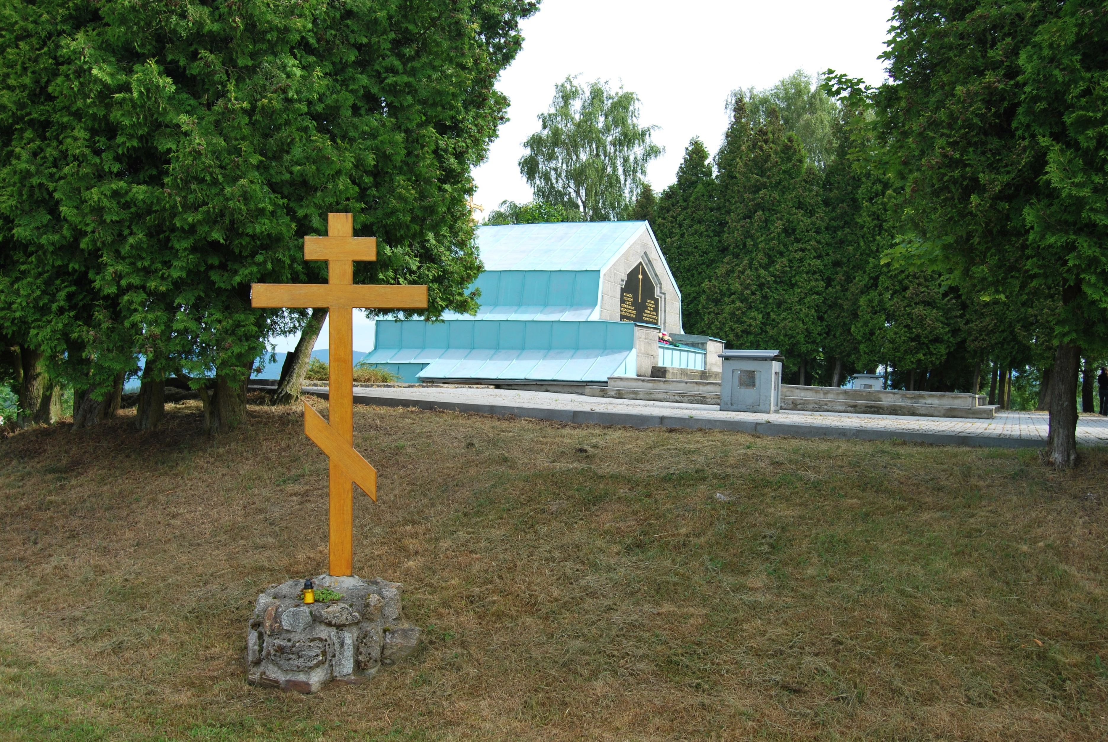 Mausoleum in Jindřichovice